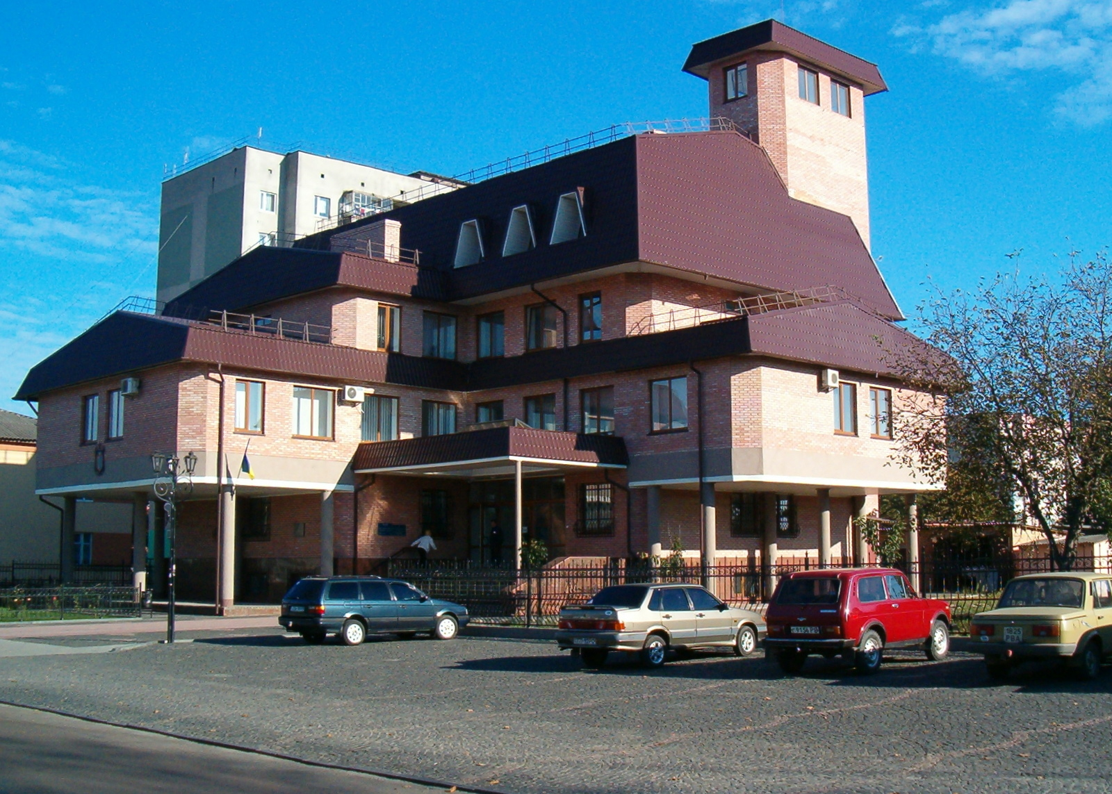 Kostopilska Miska Rada bilding in Kostopil